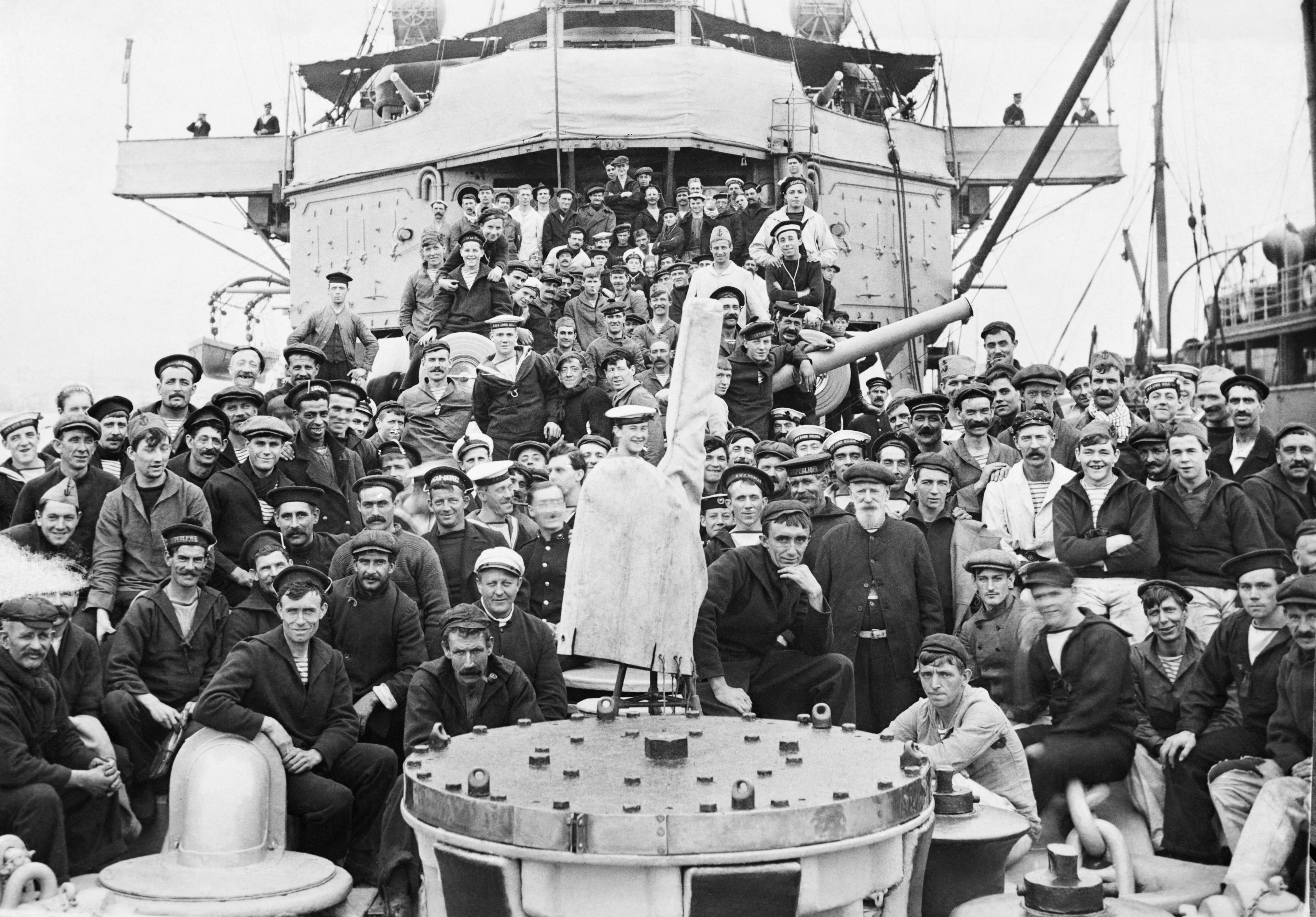 Some of the survivors of the Britannic aboard HMS Scourge.